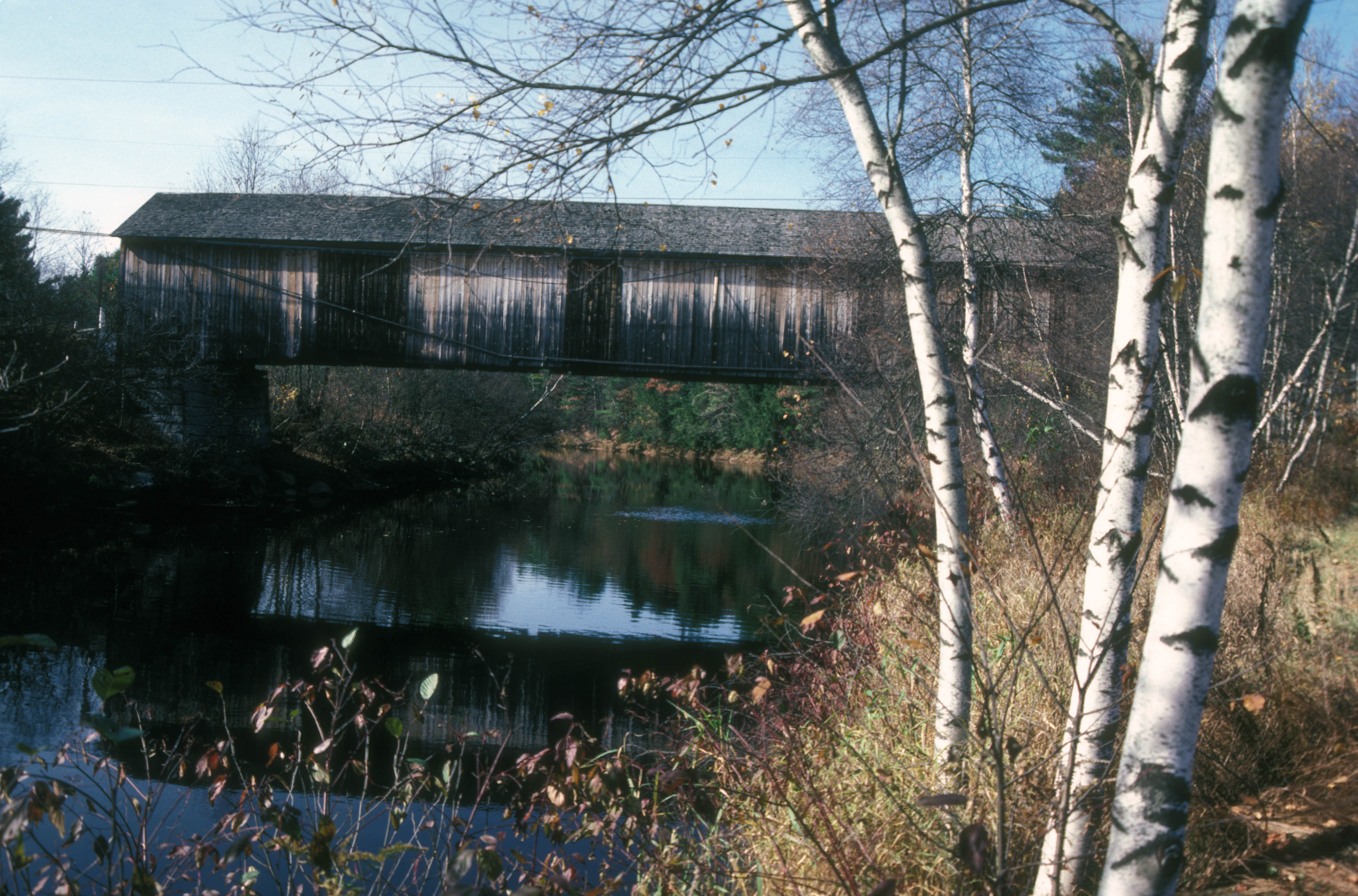 1862; 145’ TOWN OVER ASHUELOT RIVER